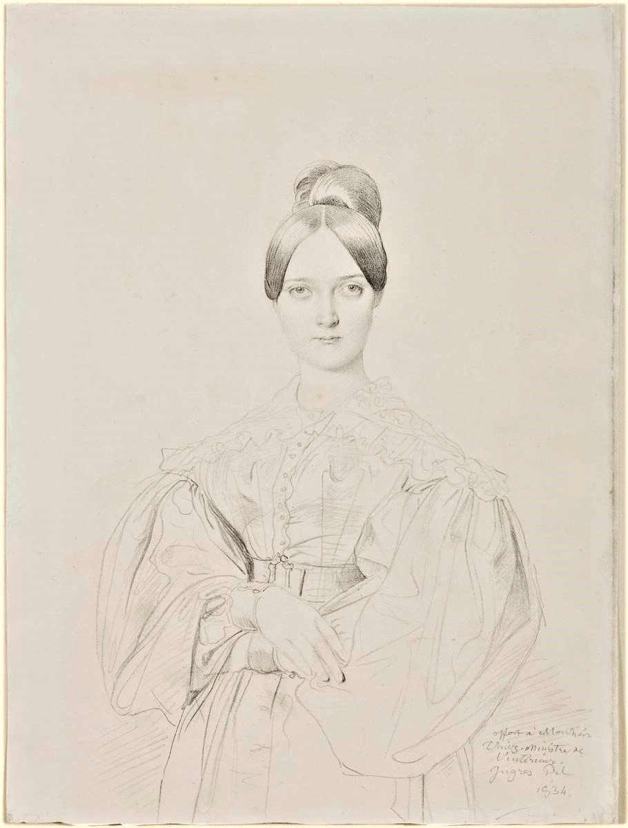 Portrait of Élise Thiers, wife of Adolphe Thiers, created in 1834 by Ingres